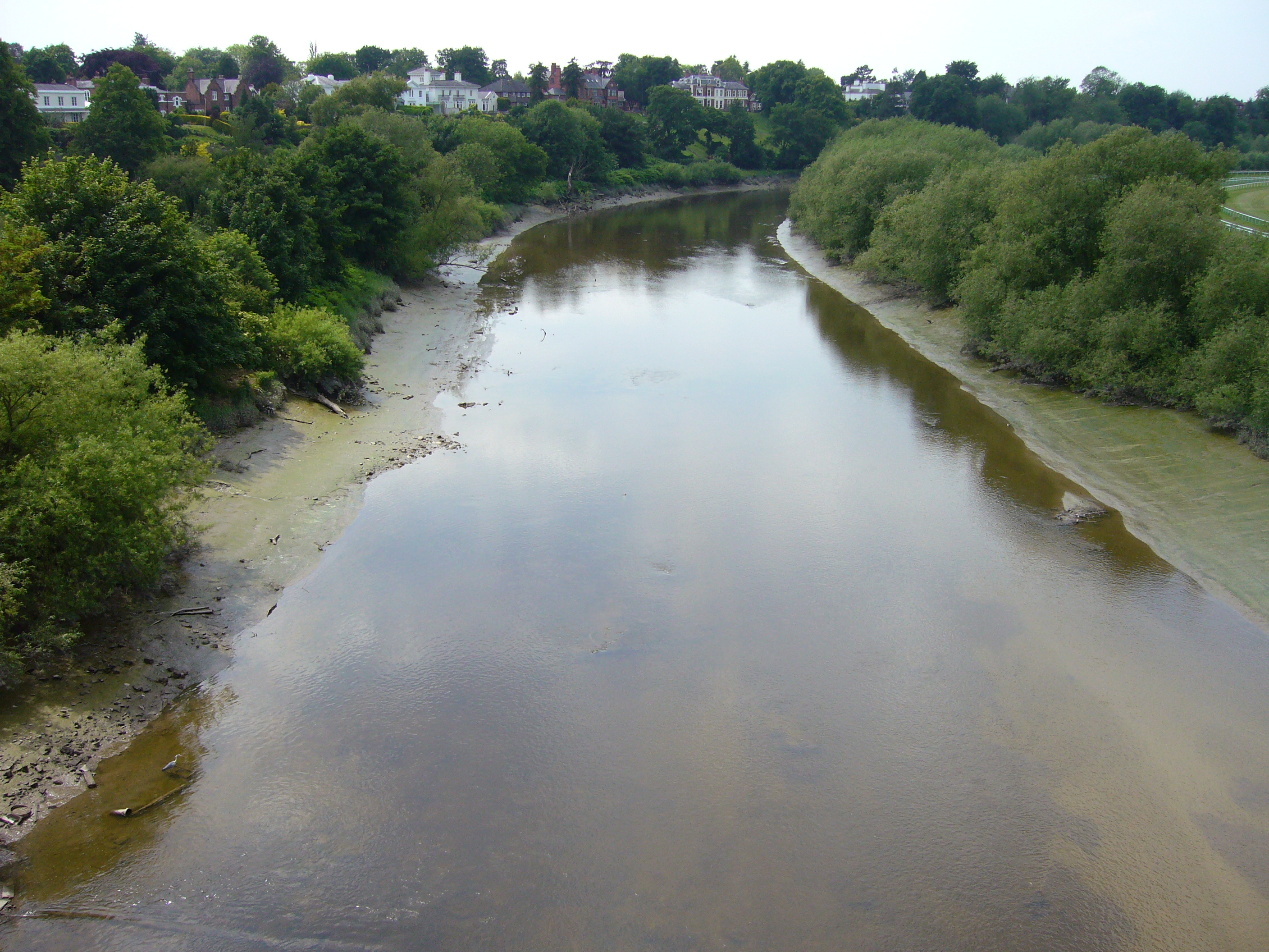 A view of Curzon Park in Chester, taken from the Grosvenor Bridge spanning the River Dee. Photo was taken in Summer at low tide. The racetrack on the Roodee is just visible in the extreme right of the picture.